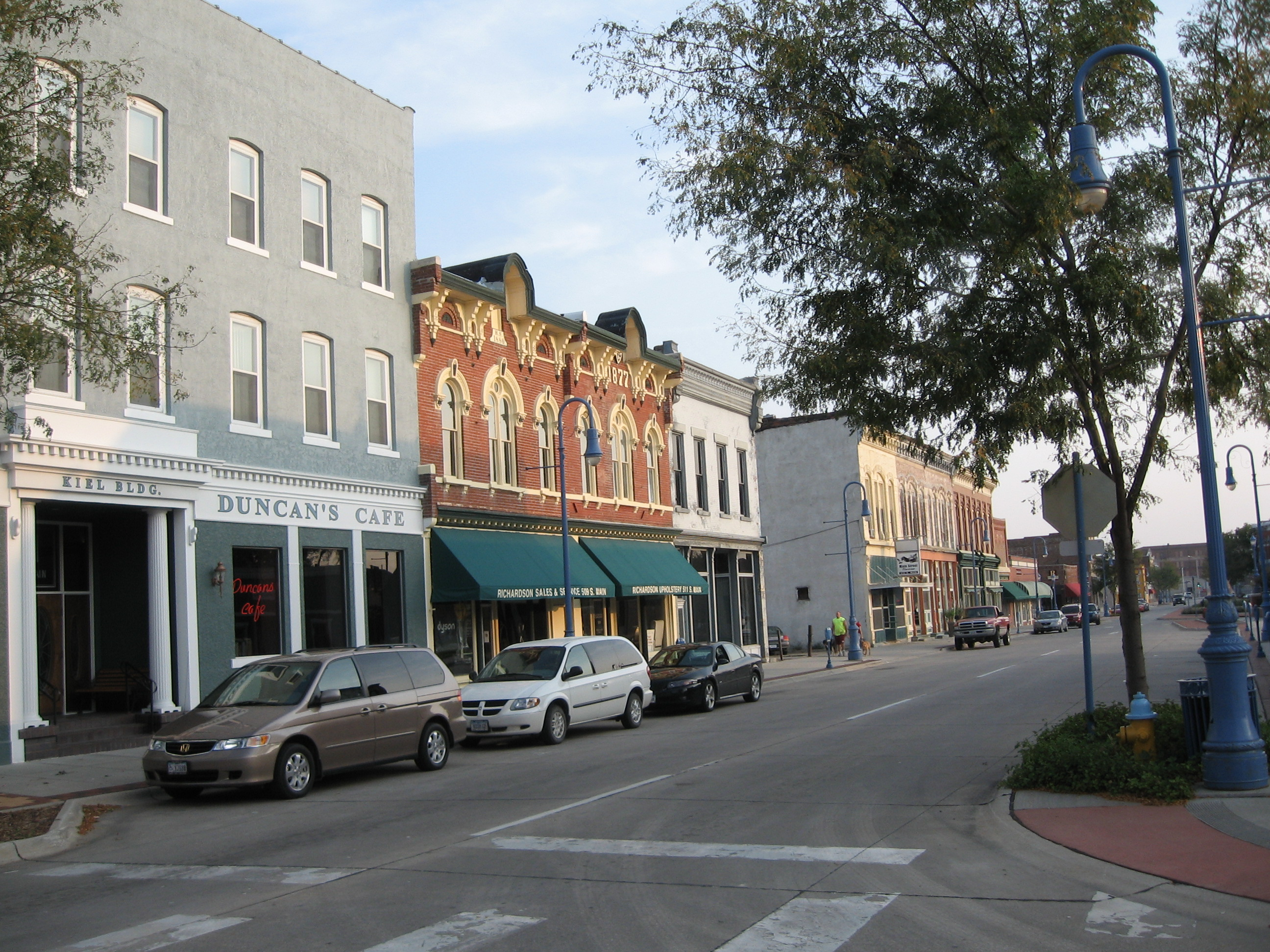 Council Bluffs, Iowa. Near Main and Broadway. Old downtown area.